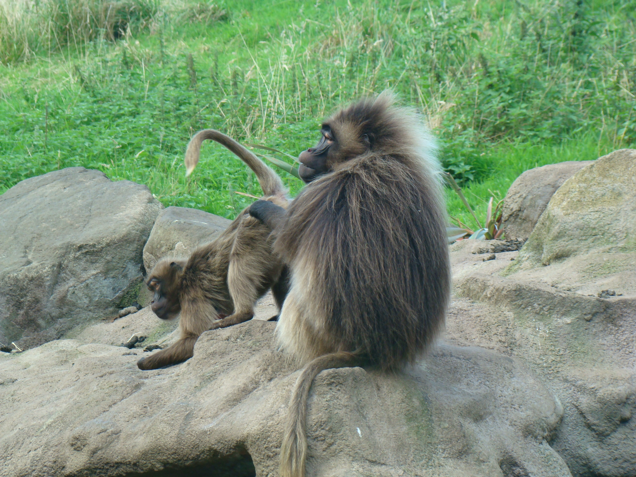 Two geladas from Edinburgh Zoo